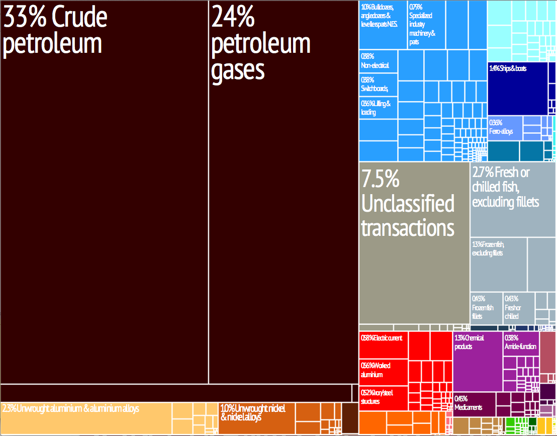 Export Trading Treemap. From MIT/Harvard Atlas of Economic Complexity